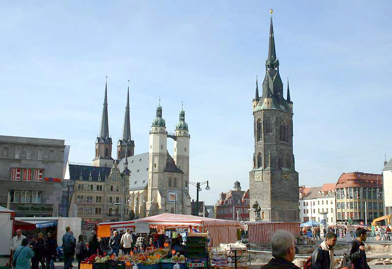 Halle/Germany Marketplace